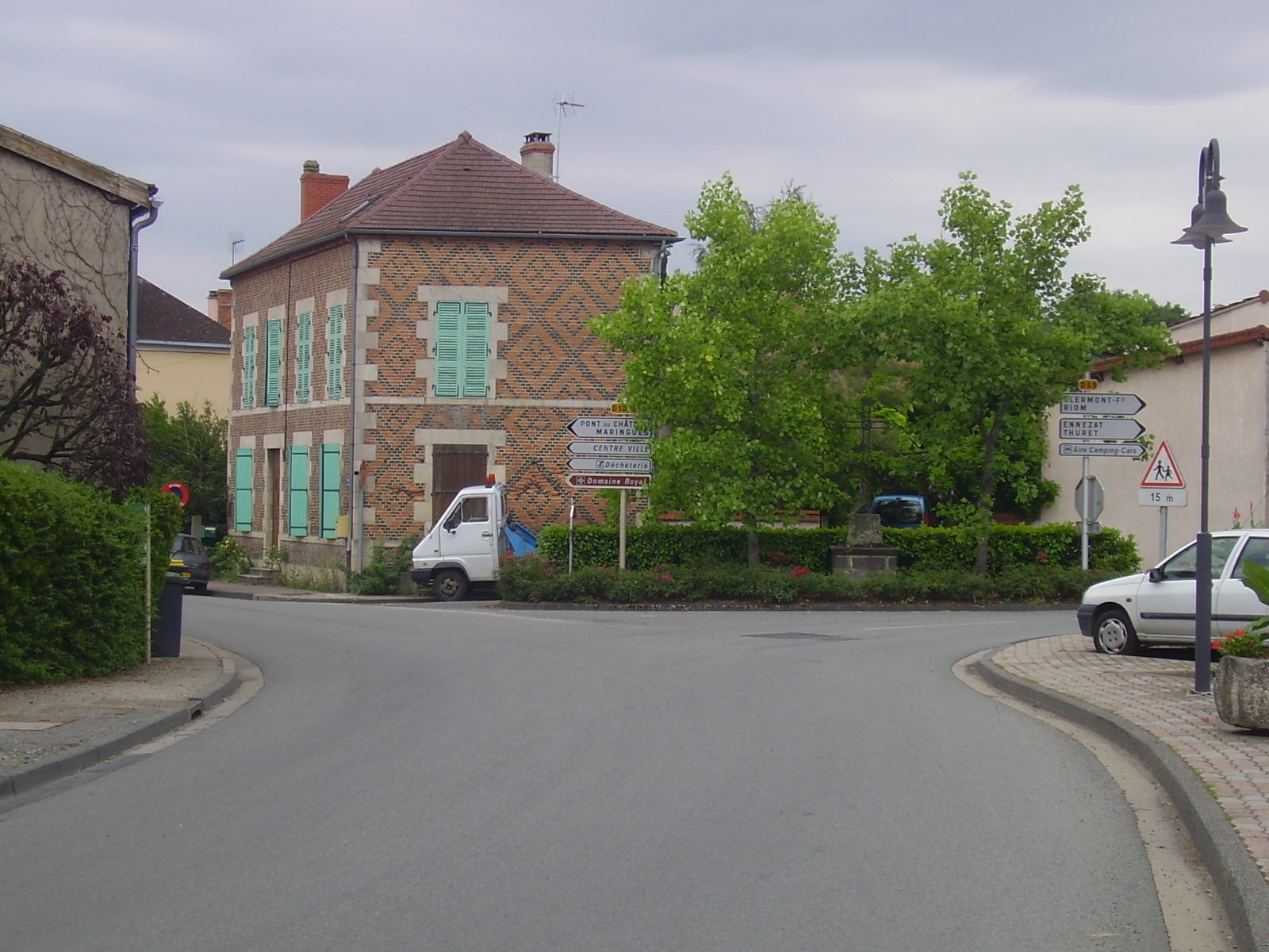 Intersection of D 1093 (Vichy ↔ Pont-du-Château), directions: Pont-du-Château / Maringues; and D 59, directions: Clermont-Ferrand / Riom / Ennezat / Thuret - Puy-de-Dôme, Auvergne, France